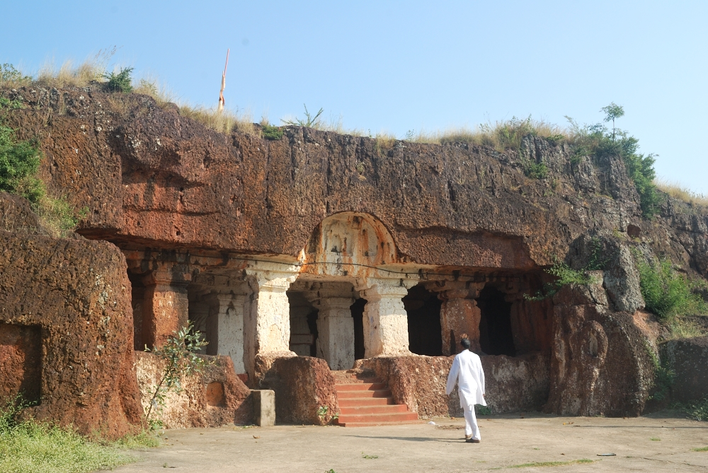 Kharosa Leni